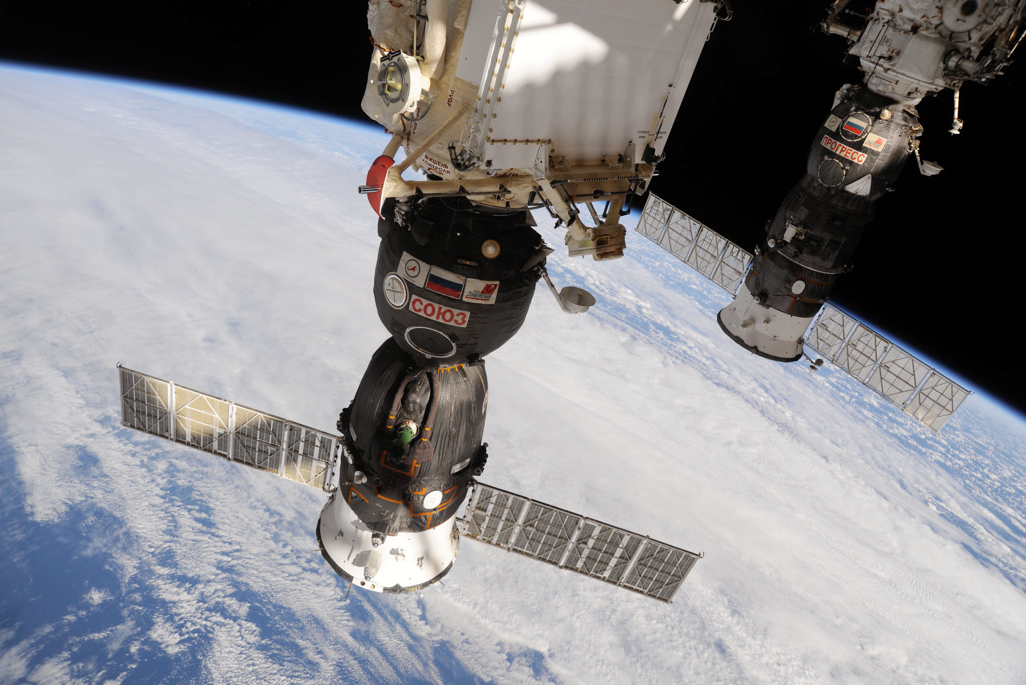 The Soyuz TMA-19 spacecraft (foreground), docked to the Rassvet Mini-Research Module 1 (MRM1), and Progress 37 resupply vehicle, docked to the Pirs Docking Compartment, are featured in this image photographed by an Expedition 24 crew member on the International Space Station. A blue and white part of Earth and the blackness of space provide the backdrop for the scene.